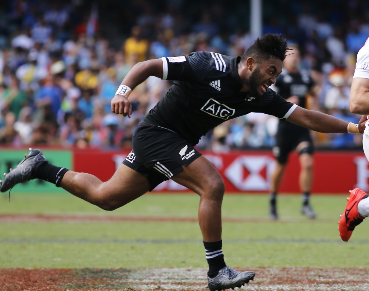 2017.02.05.15.10.56-NZvENG Semi-0002